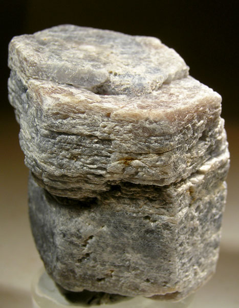 Corundum Locality: Zimbabwe (Locality at ) Not exactly a gemstone, but a WHOPPER corundum (sapphire) crystal, of textbook hexagonal form, from Zimbabwe - apparently purchased in 1981 according to the Ed Ruggiero index card that came with it. Light blue-gray color. 4.8 x 4.3 x 4 cm